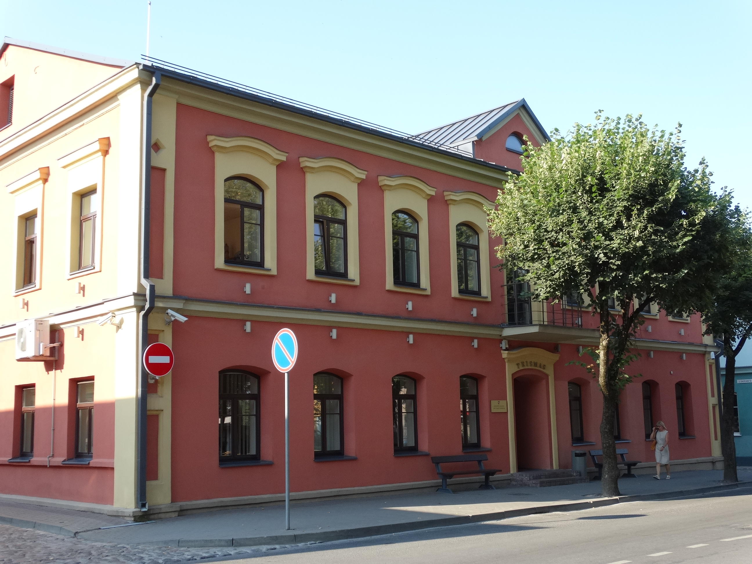 Court, Anykščiai, Lithuania